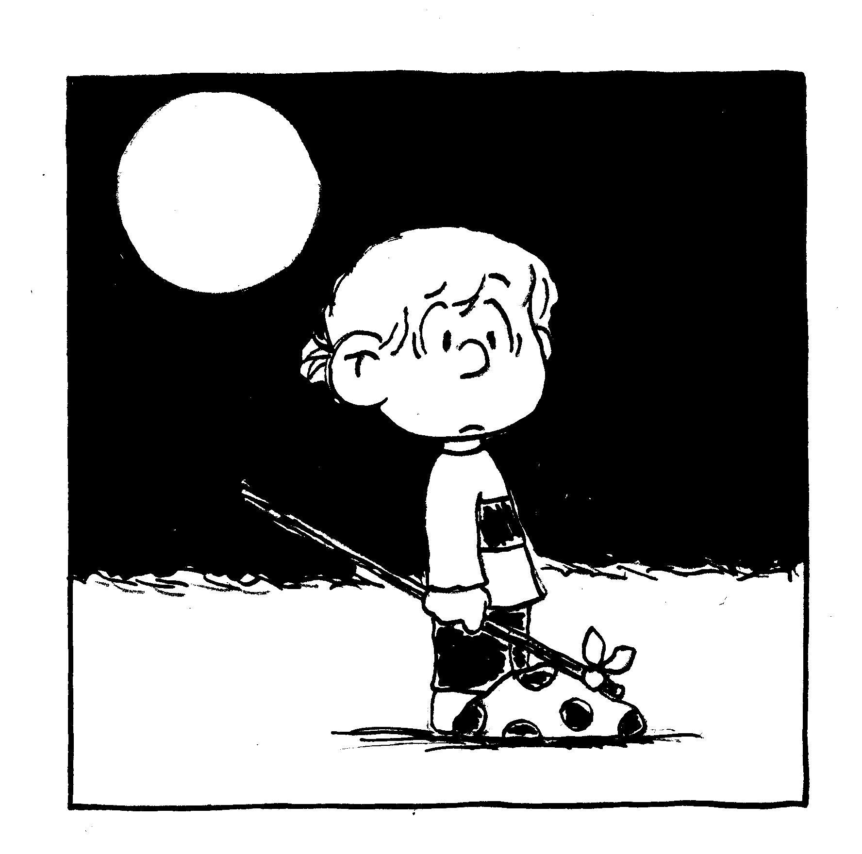 Trevor from the comic strip "Scallywags"